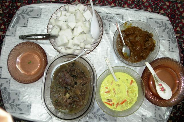 Malay festive staples.